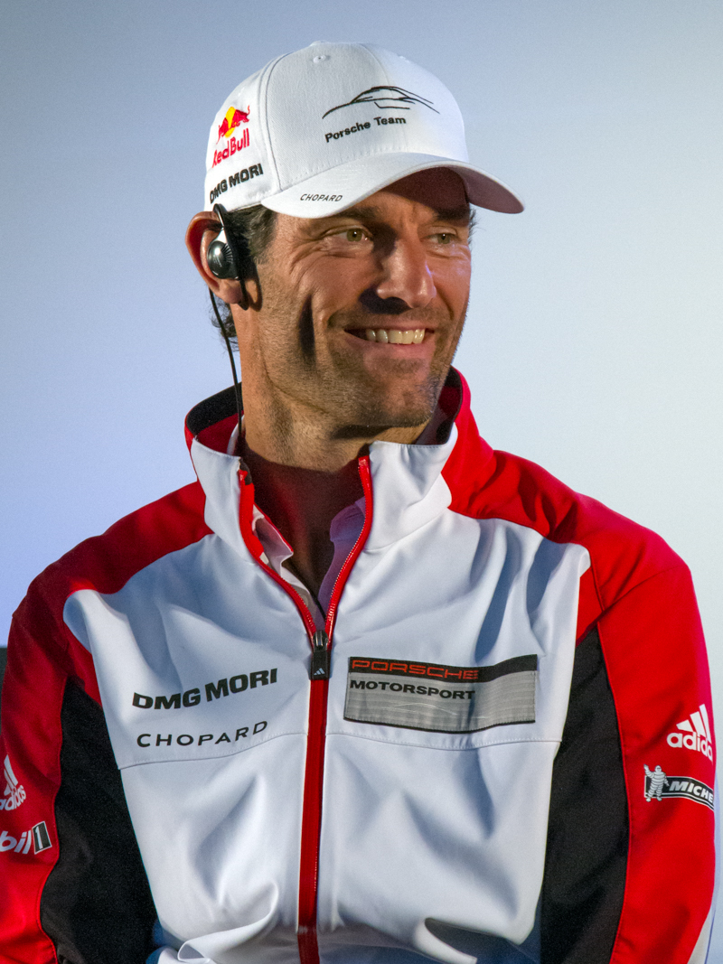 FIA World Endurance Championship 2014 Rd.5 6 Hours of Fuji: Mark Webber (Porsche)